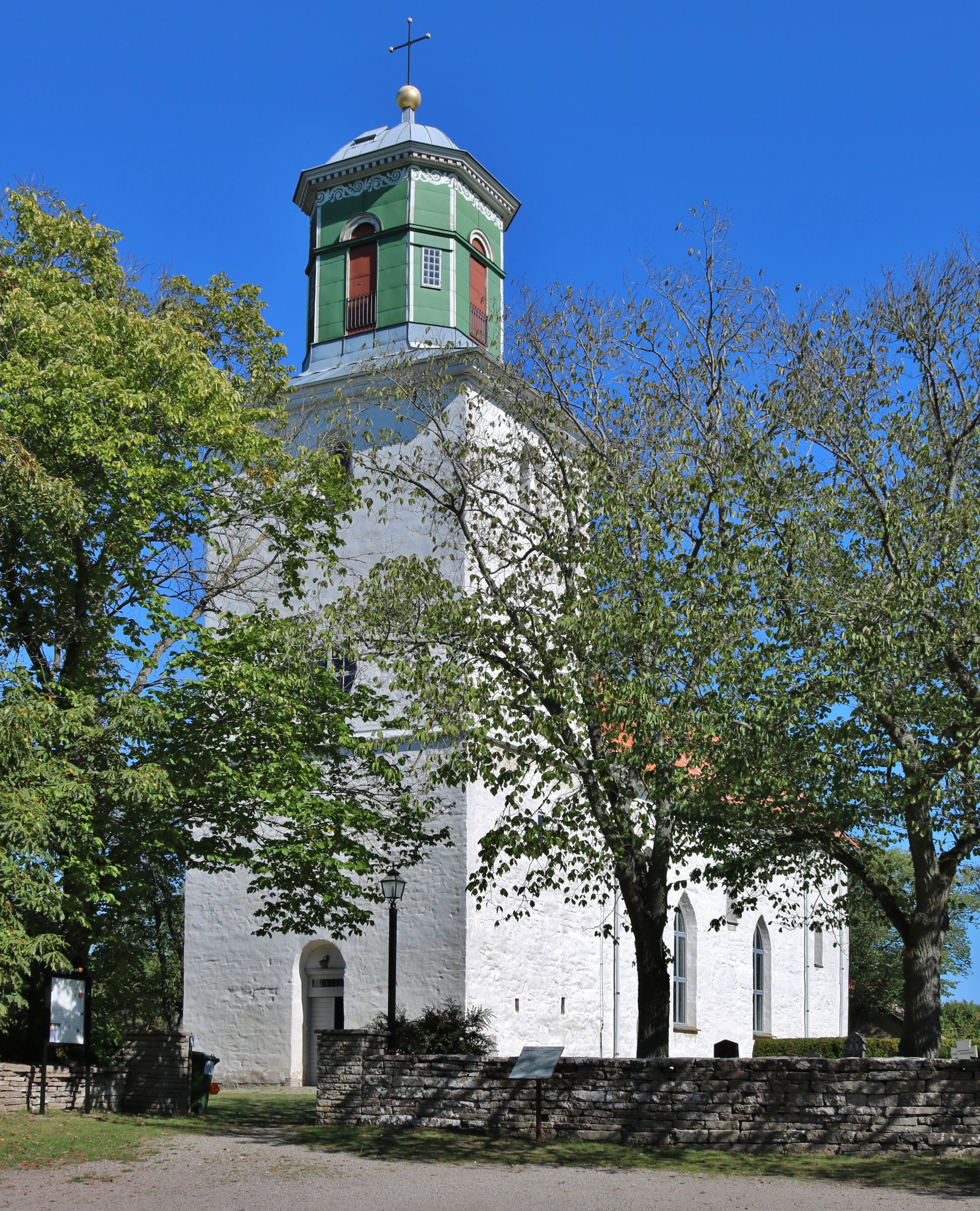 Resmo Church.Exterior